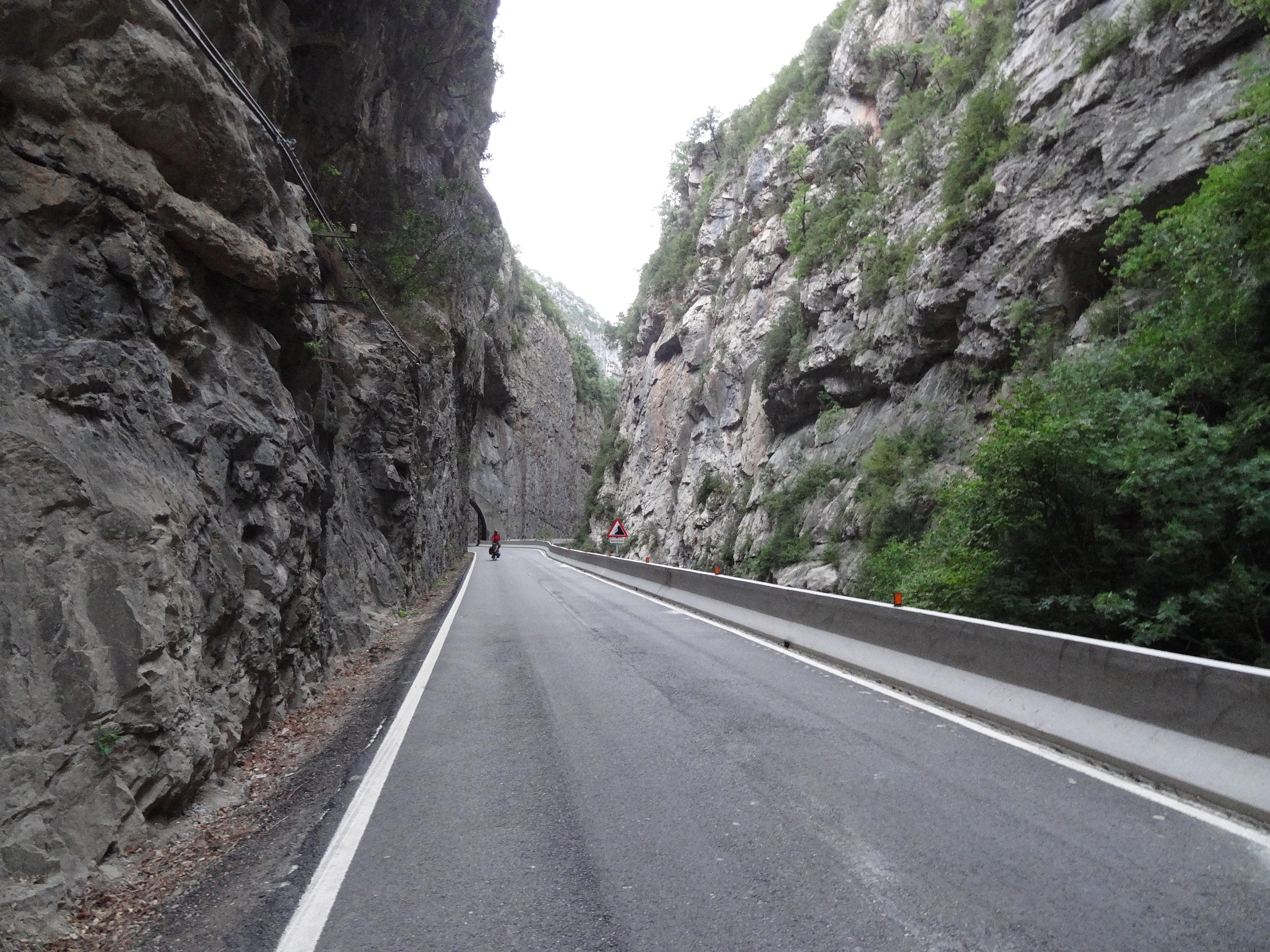 Congosto de Ventamillo, A-139, west of Campo